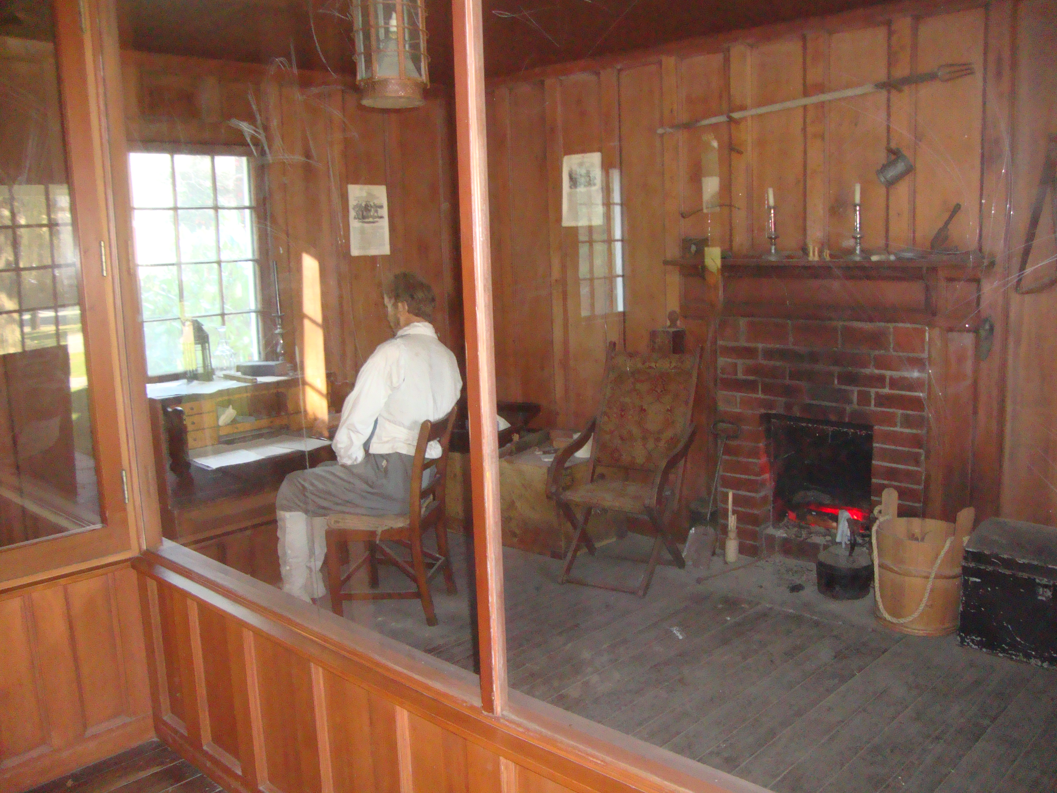 The northern room of Deans Cottage.